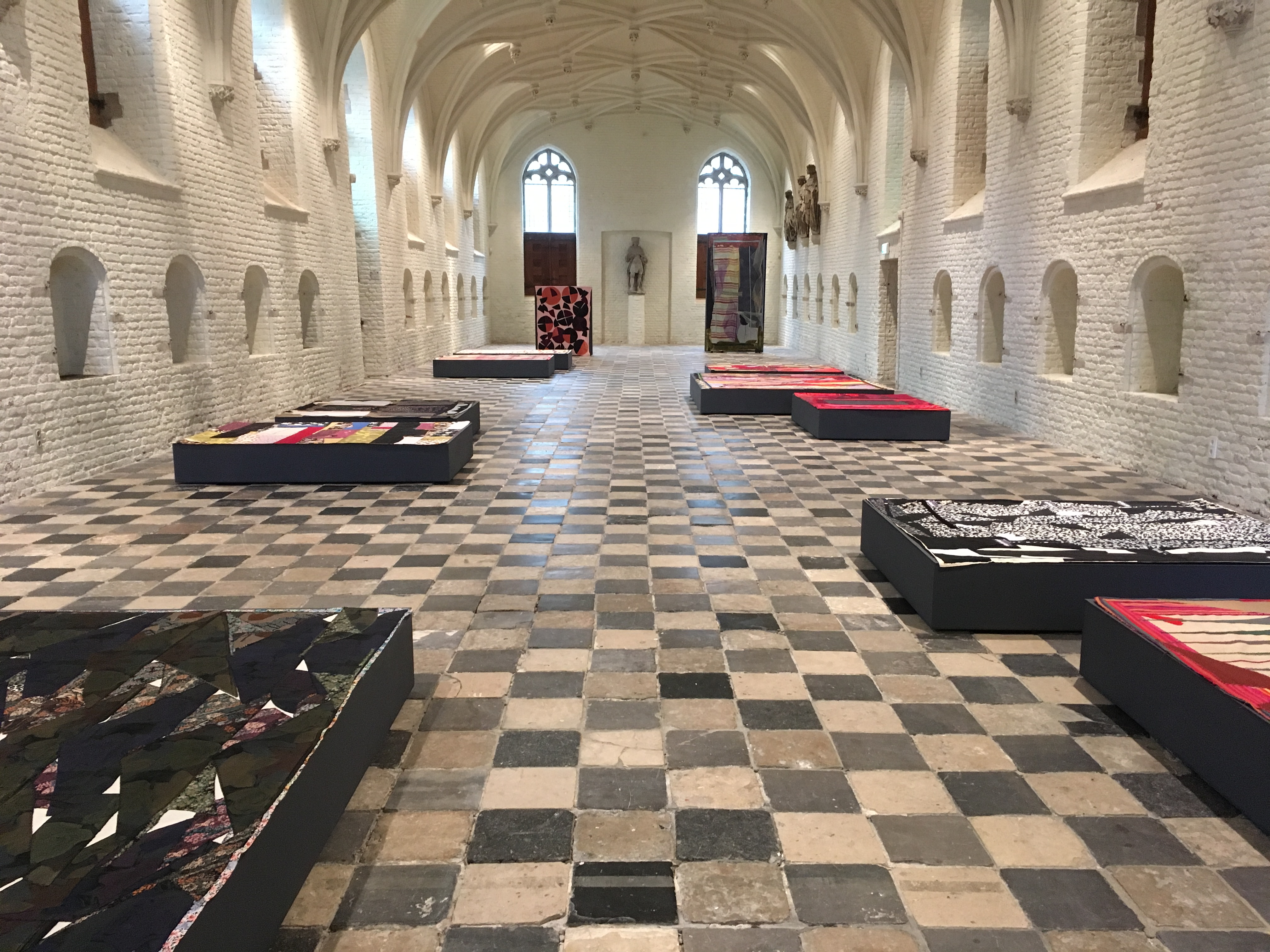 Interior of the art center Vleeshal in Middelburg with a temporary exhibition of textile artworks by Noa Eshkol